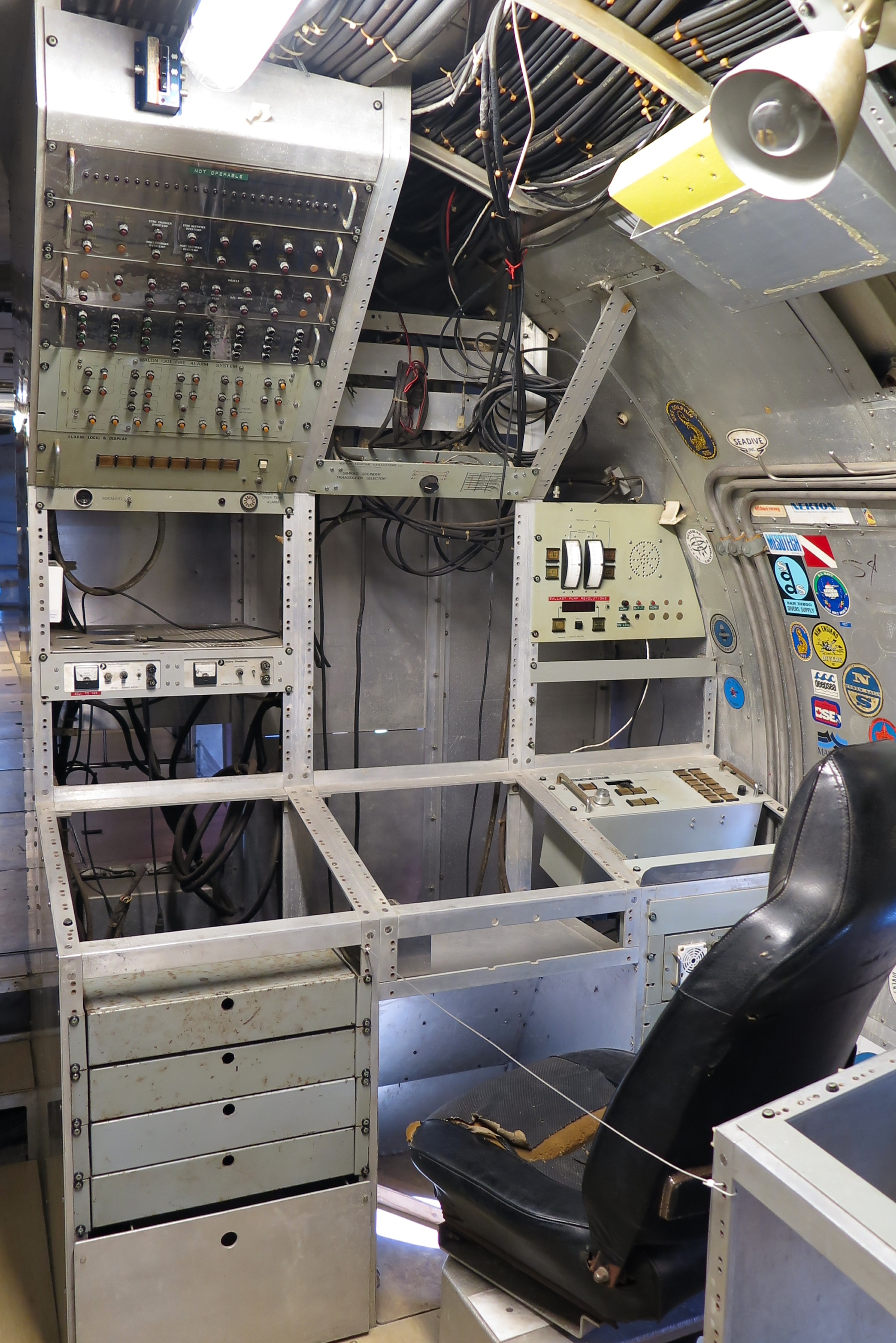 The console looks quite empty out. It was originally planned to restore it again. Swiss museum of transportation in Lucerne, Switzerland, Nov 3, 2014. (10/15)